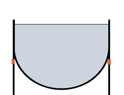 Scheme of the water-reservoir type “Barkhausen”, invented by Karl Georg Barkhausen (* 28. Juni 1849 in Bückeburg; † 1. April 1923 in Hannover